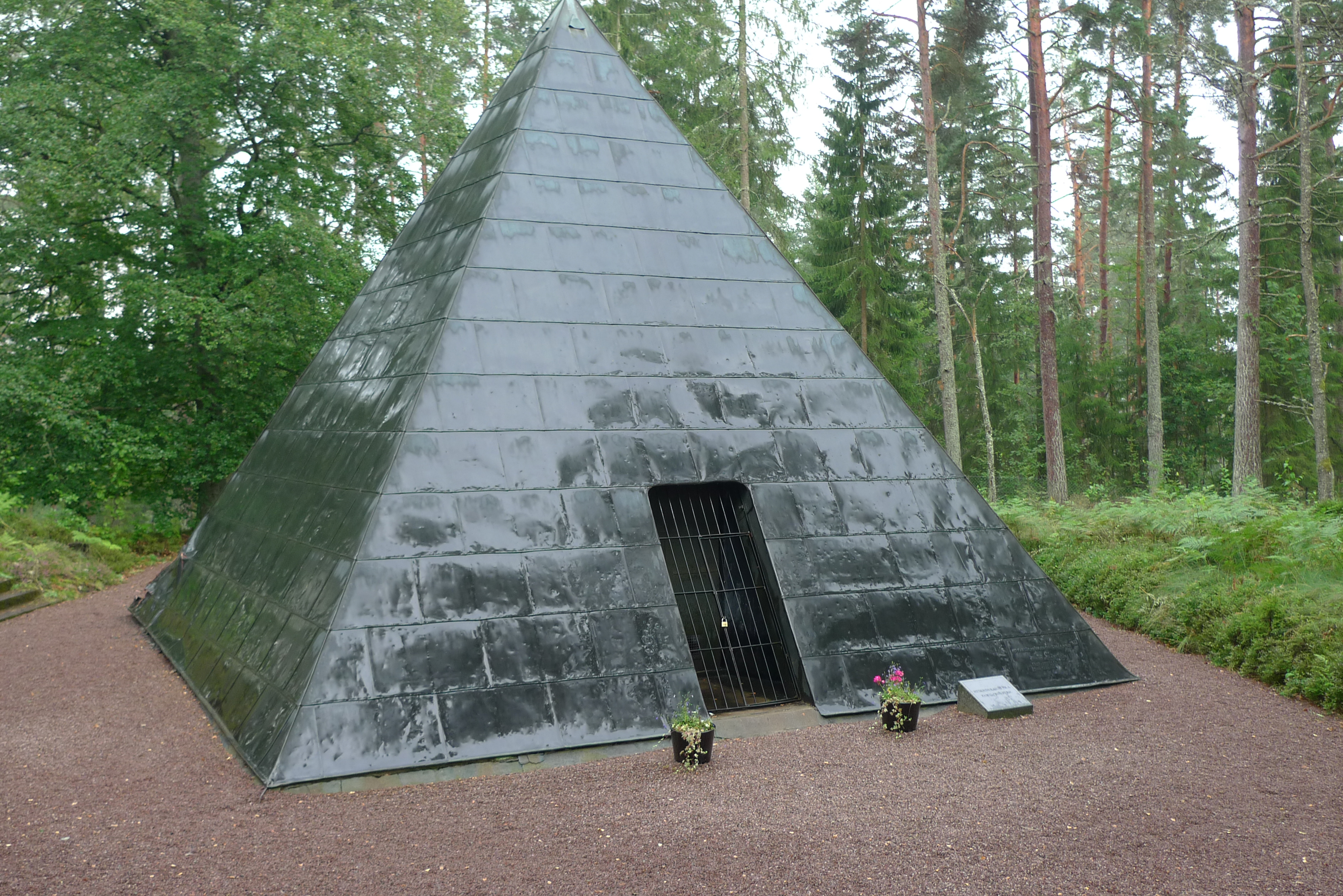 The pyramid tomb created by Malte Liewen Stierngranaat